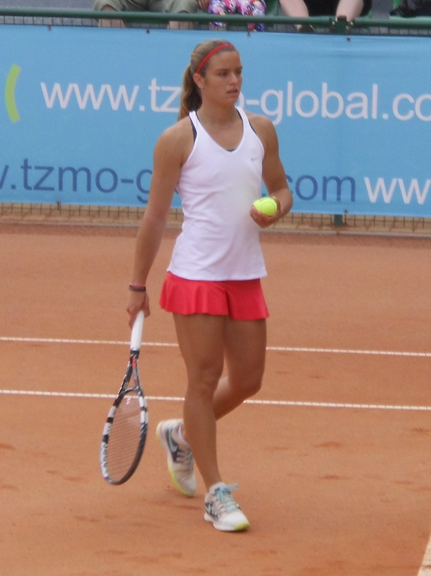 Maria Sakkari during final match at 2014 Bella Cup